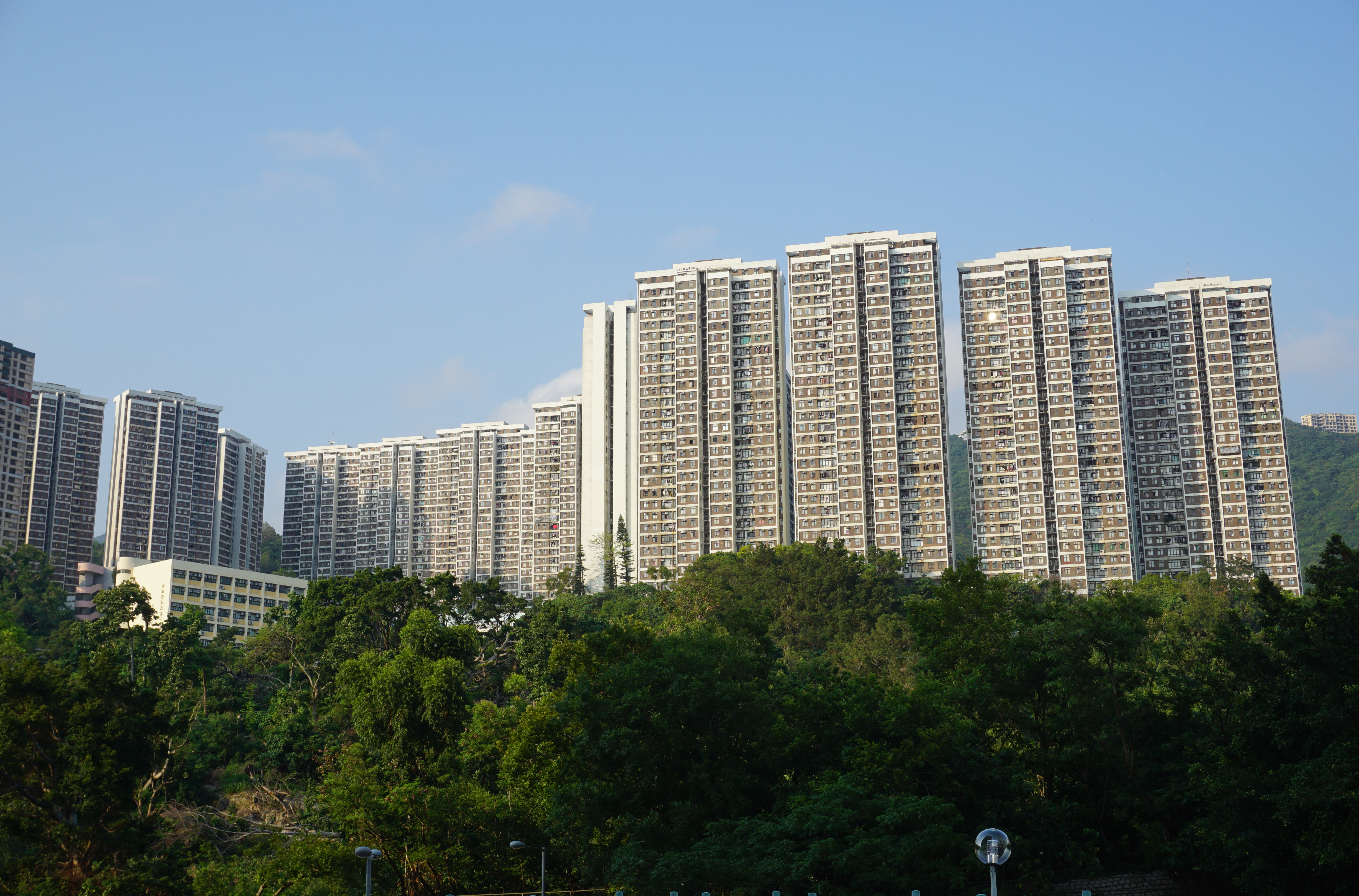 Chi Fu Fa Yuen in Pok Fu Lam, Hong Kong.